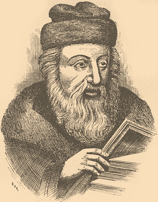 Illustration from Brockhaus and Efron Jewish Encyclopedia (1906—1913)